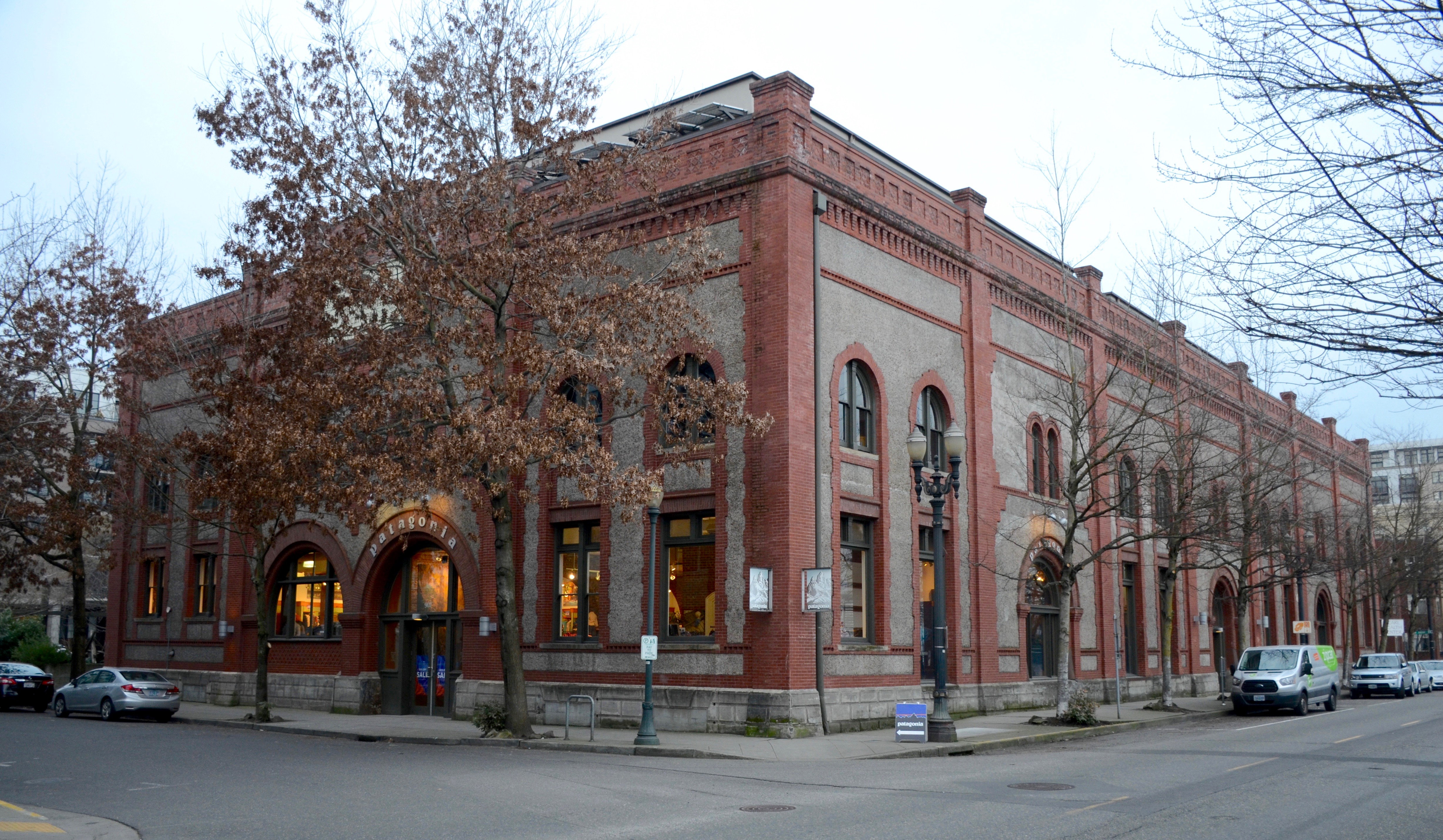 The Natural Capital Center, in Portland, Oregon, viewed from the southeast. The building was constructed in 1895 as a warehouse (!) for the J. McCraken Company.